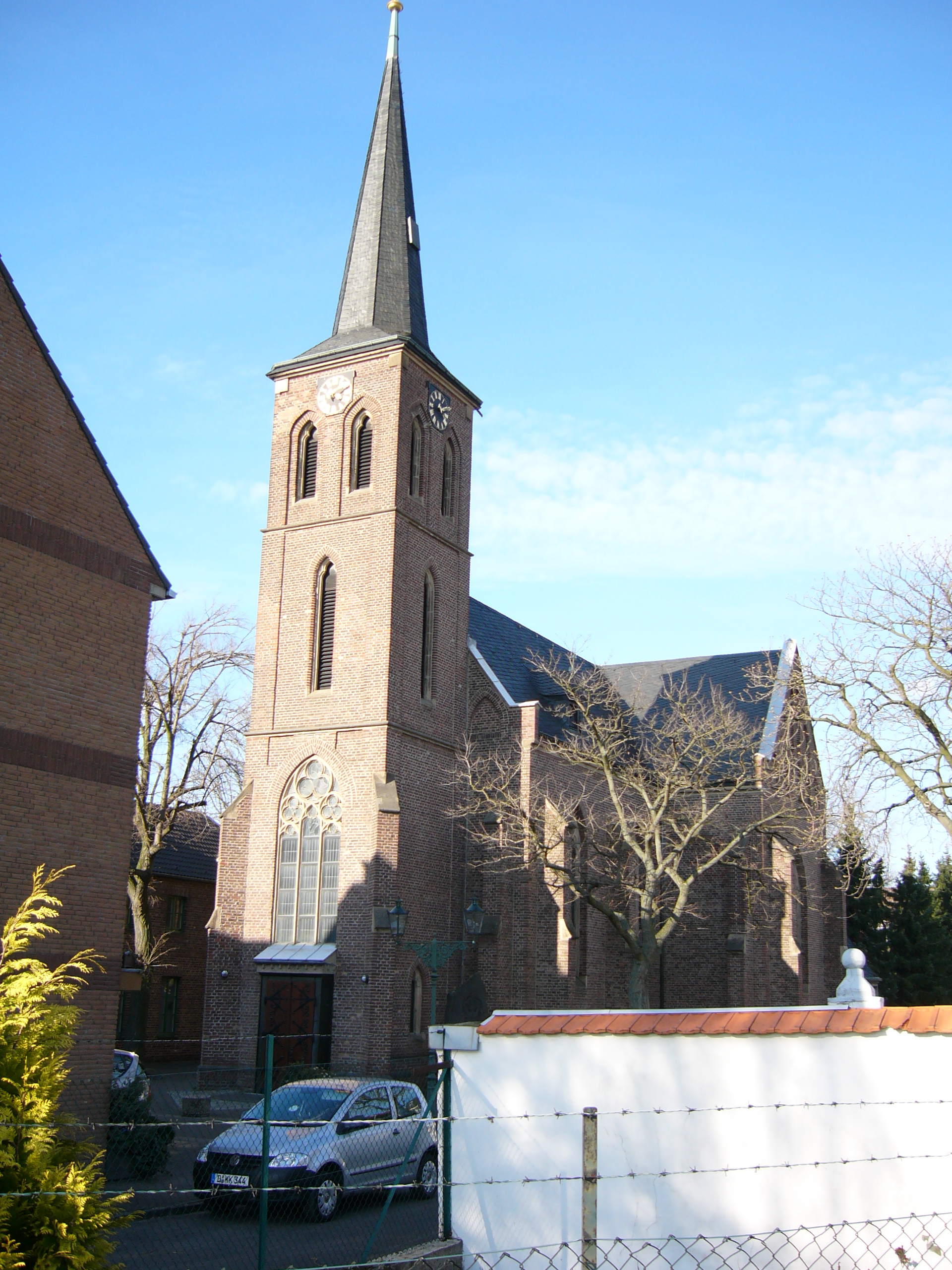 Roman-Catholic Church of Düsseldorf-Volmerswerth